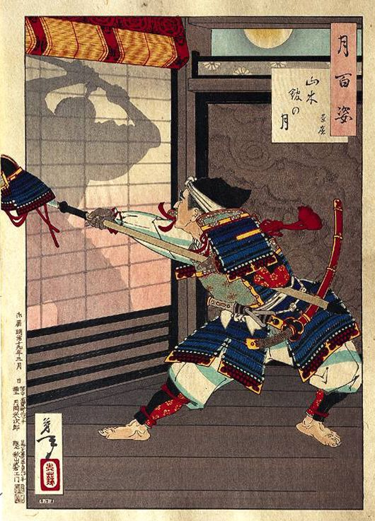 Moon at the Yamaki Mansion (Yamaki yakata no tsuki)